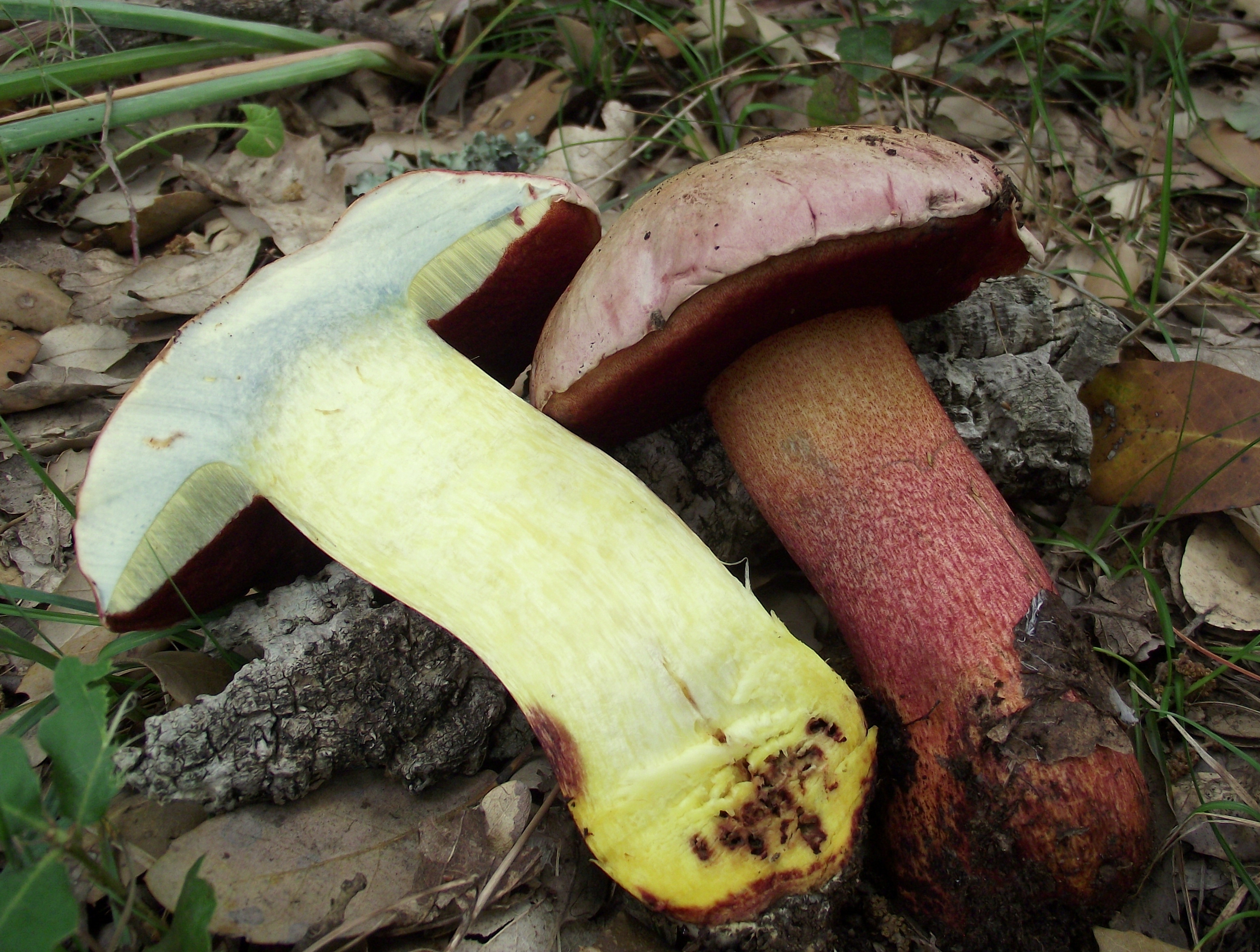 Rubroboletus rhodoxanthus (Krombh.) Kuan Zhao et Zhu L. Yang Image location: Isili, Italy For more information about this, see the observation page at Mushroom Observer.